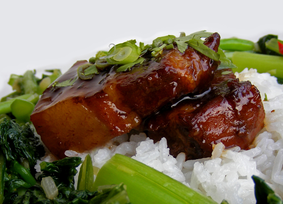 Sous-vide Red-braised Pork Belly